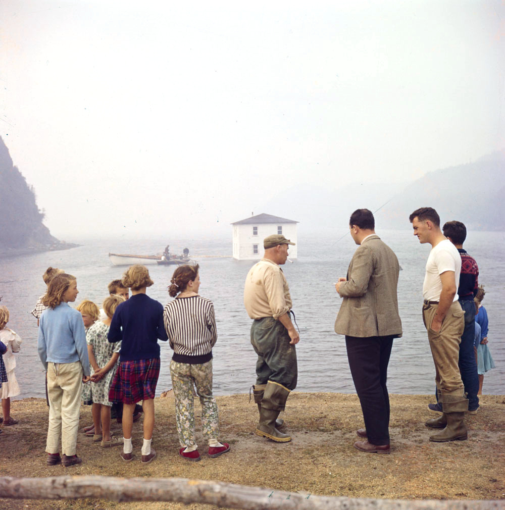 Title / Titre : A house being floated from Silver Fox Island, Bonavista Bay, to Dover, Newfoundland / Maison déménagée sur l’eau, de l’île Silver Fox, dans la baie de Bonavista, à Dover (Terre-Neuve) Creator(s) / Créateur(s) : B. Brooks Date(s) : 1961 Reference No. / Numéro de référence : MIKAN 4301898, 4314208 Location / Lieu : Dover, Newfoundland and Labrador, Canada / Dover, Terre-Neuve-et-Labrador, Canada Credit / Mention de source : B. Brooks. National Film Board of Canada. Still Photography Division. Library and Archives Canada, e010975948 / B. Brooks. Office national du film du Canada. Service de la photographie. Bibliothèque et Archives Canada, e010975948